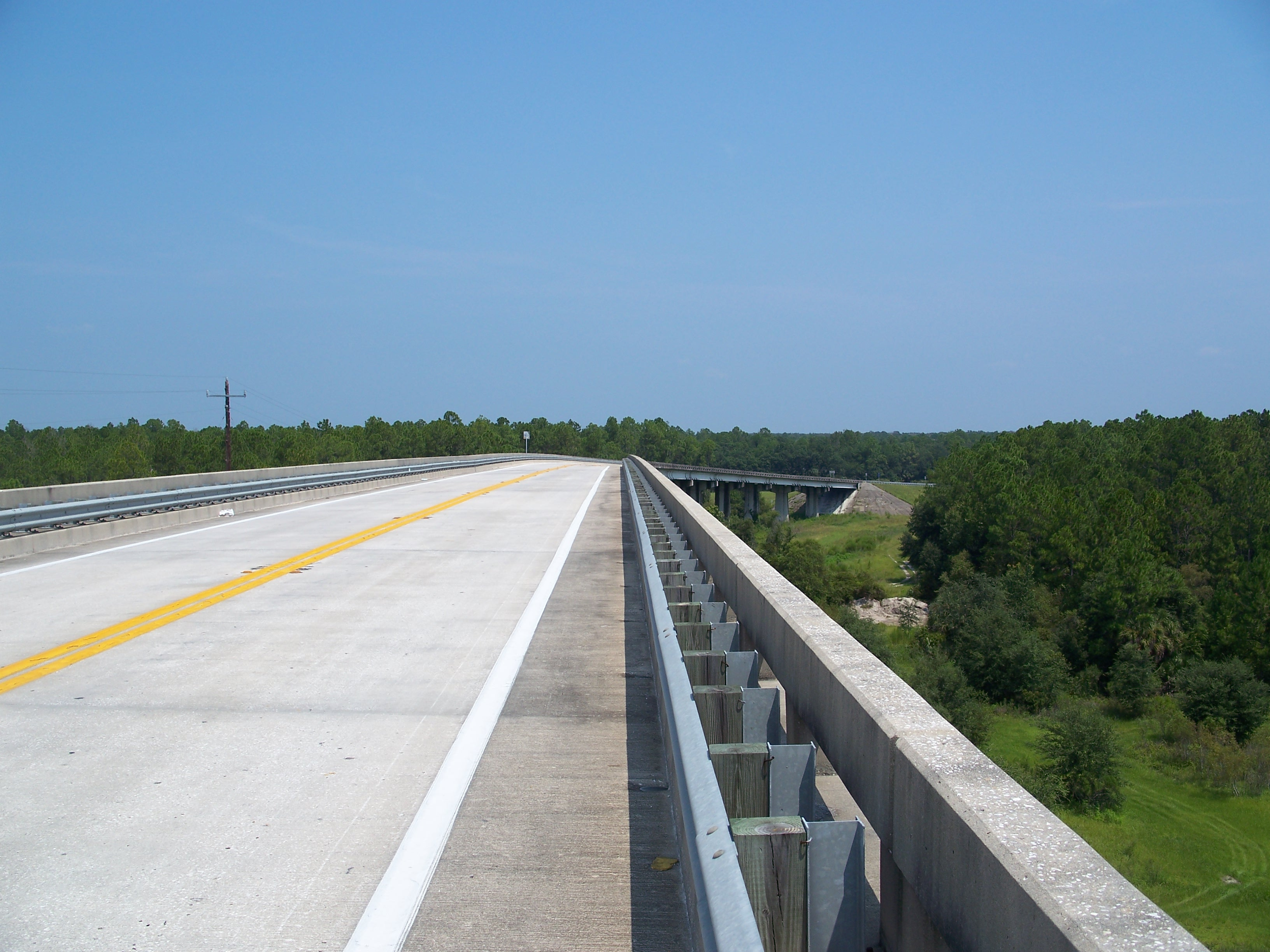 Looking north on the SR 19 bridge across the Cross Florida Barge Canal, south of Palatka, Florida